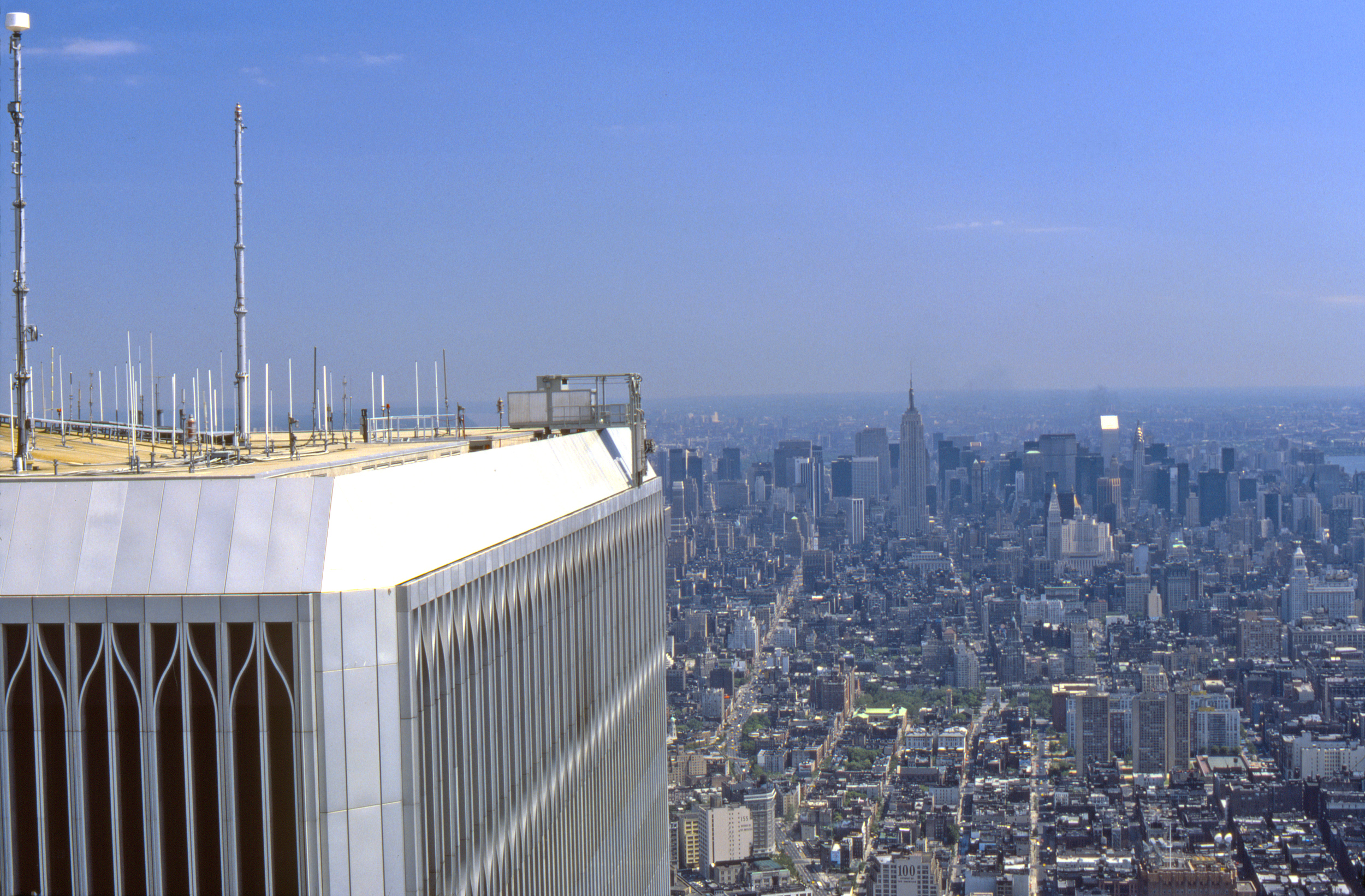 View of top of One WTC and mid-Manhattan from the observation deck of Two WTC.